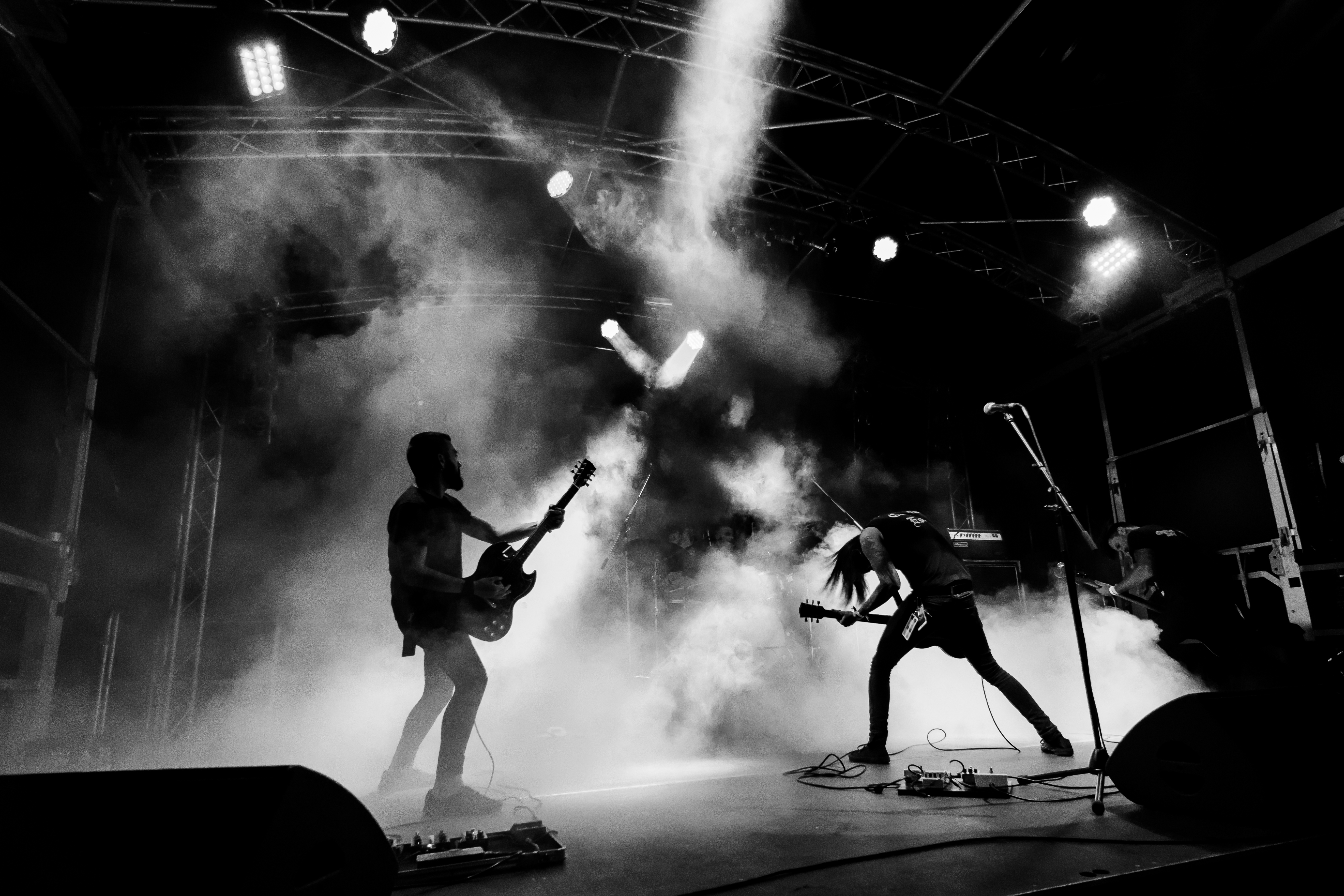 Downfall of Gaia during Summer Breeze 2016 at , Dinkelsbühl, Bayern, Germany on 2016-08-17, Photo: Sven Mandel